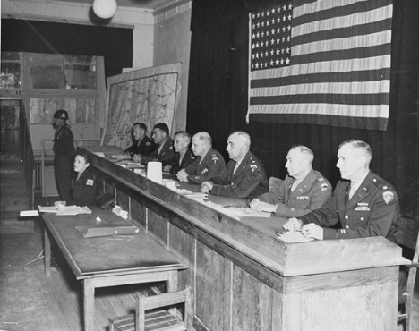 The judges comprising the American Military Tribunal which presided over the Dora-Mittelbau war crimes trial. The officers' names, from left to right, are: Major W. M. Vanderburgh, Lt. Colonel L. S. Tracy, Colonel Joseph W. Benson, Colonel Frank Silliamn, III, Lt. Colonel David H. Thomas, Colonel Claude O. Bunch, and Lt. Colonel Roy J. Herte. Locale: Dachau, [Bavaria] Germany